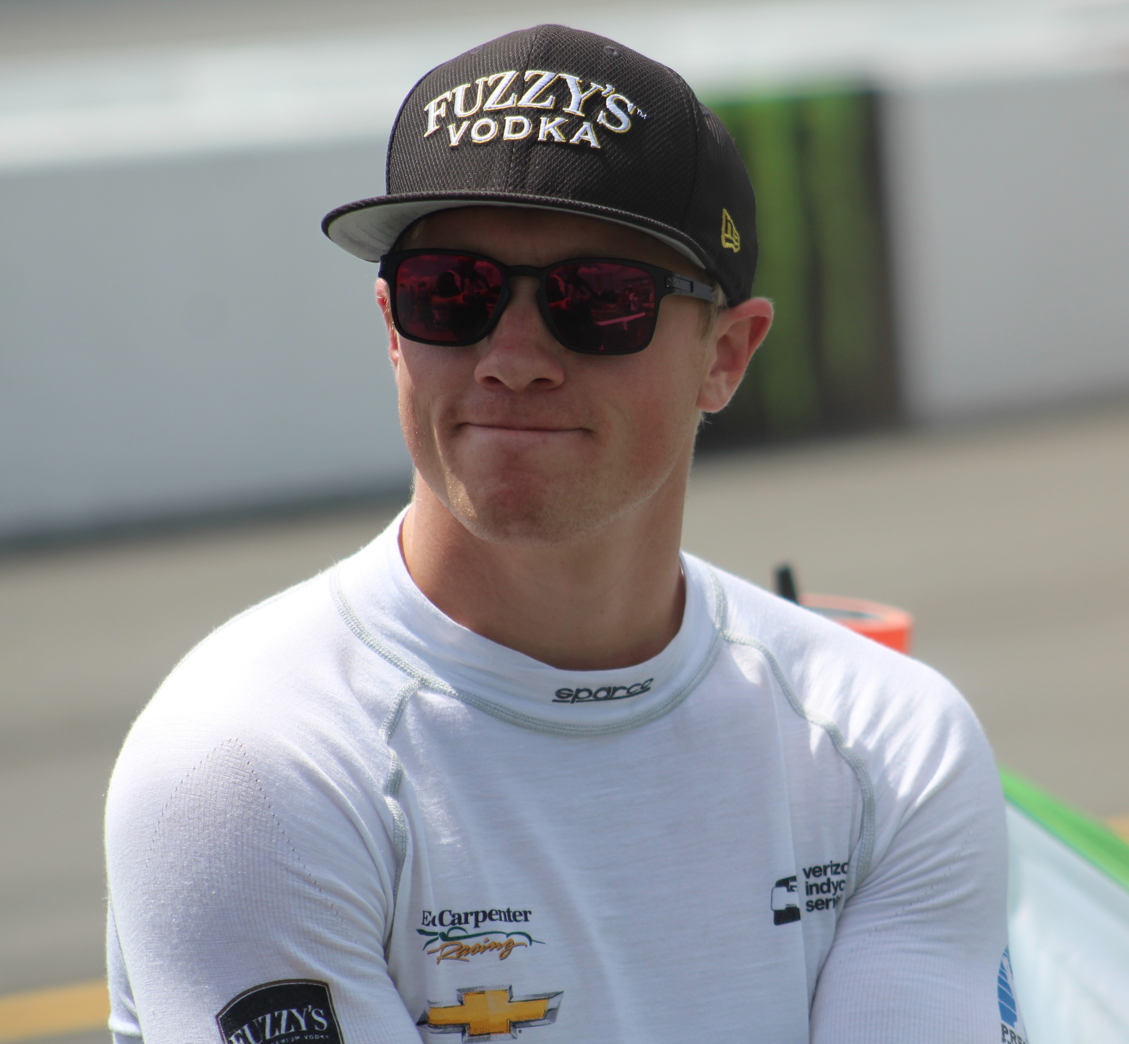 2018 ABC Supply 500 IndyCar race at Pocono Raceway